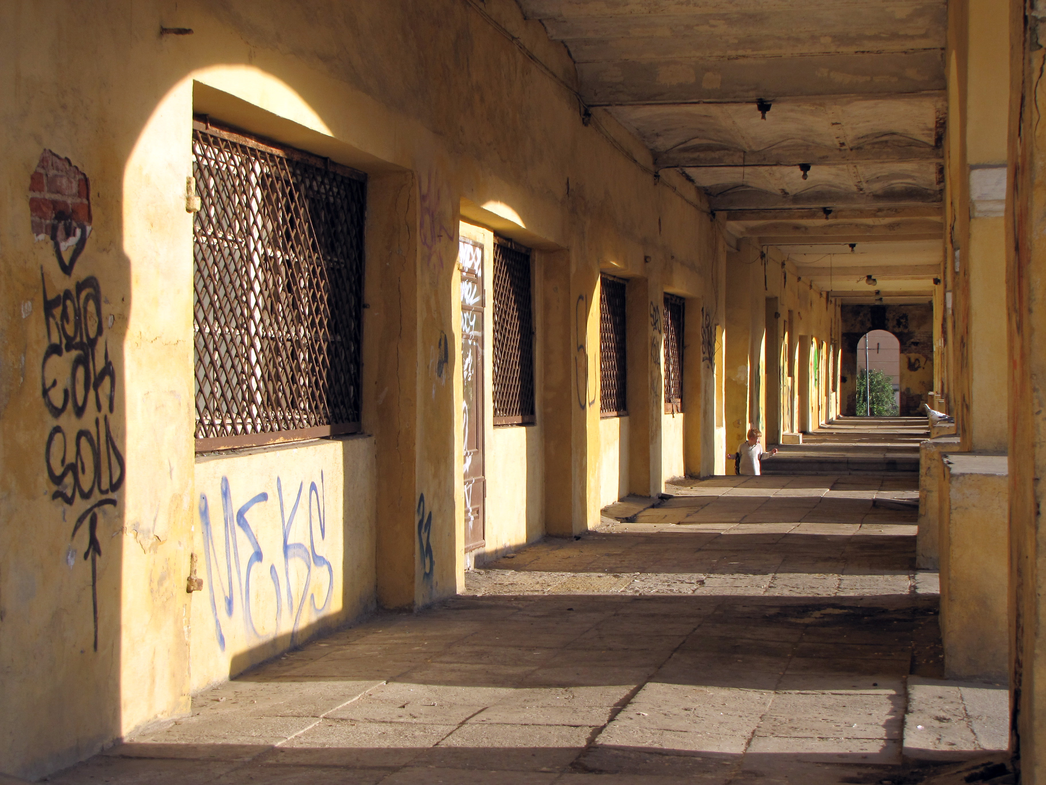 Nikolskie ryady (Russian: Никольские ряды, Nicholas Row) is a commercial building in Saint Petersburg, built in 1789